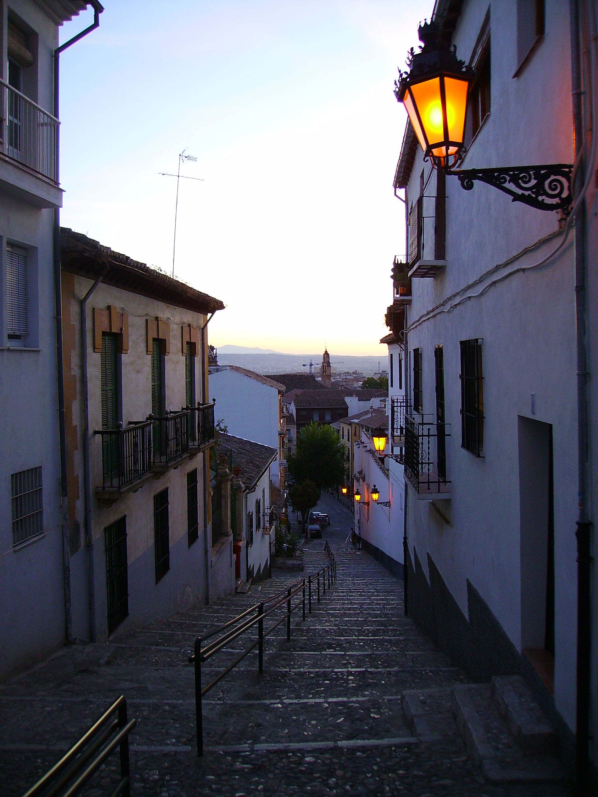 Sunset downhill the Alhambra